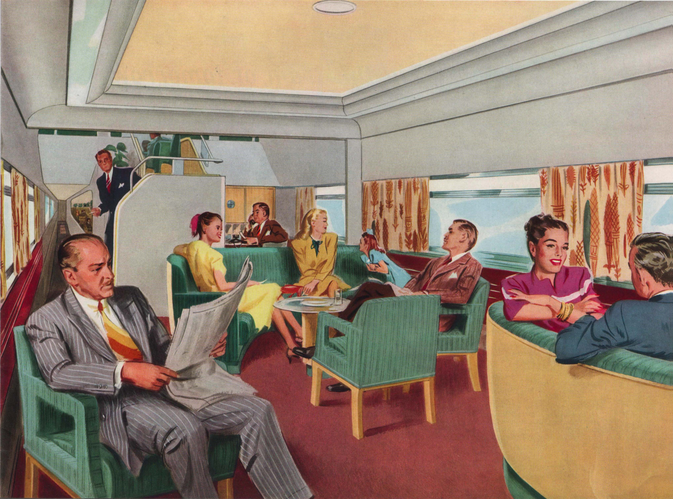 Artist's conception of the Moon Glow observation car from a promotional brochure distributed by General Motors describing the Train of Tomorrow, a demonstrator built by GM and Pullman-Standard.